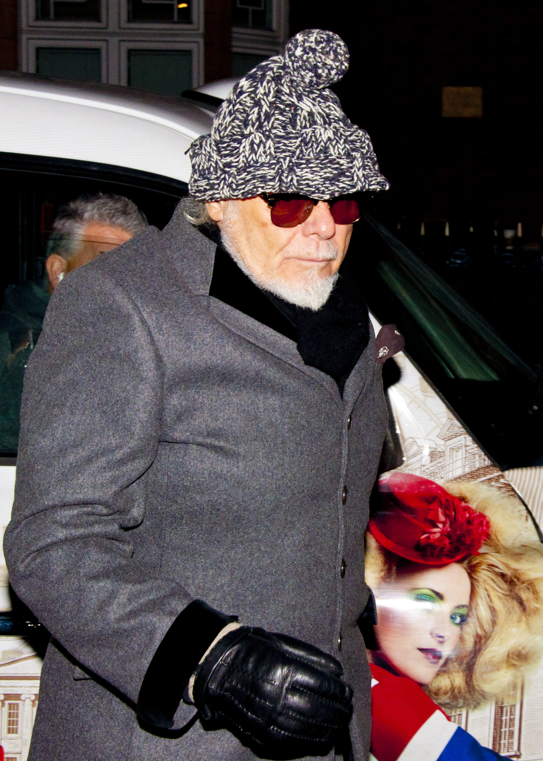 Gary Glitter arrives home after spending the day being questioned by detectives investigating the sexual abuse of children by Jimmy Savile and other people involved in the entertainment industry